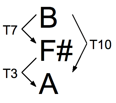 K-net relations, inversional and transpositional, represented through arrows, letters, and numbers. Chord 1.